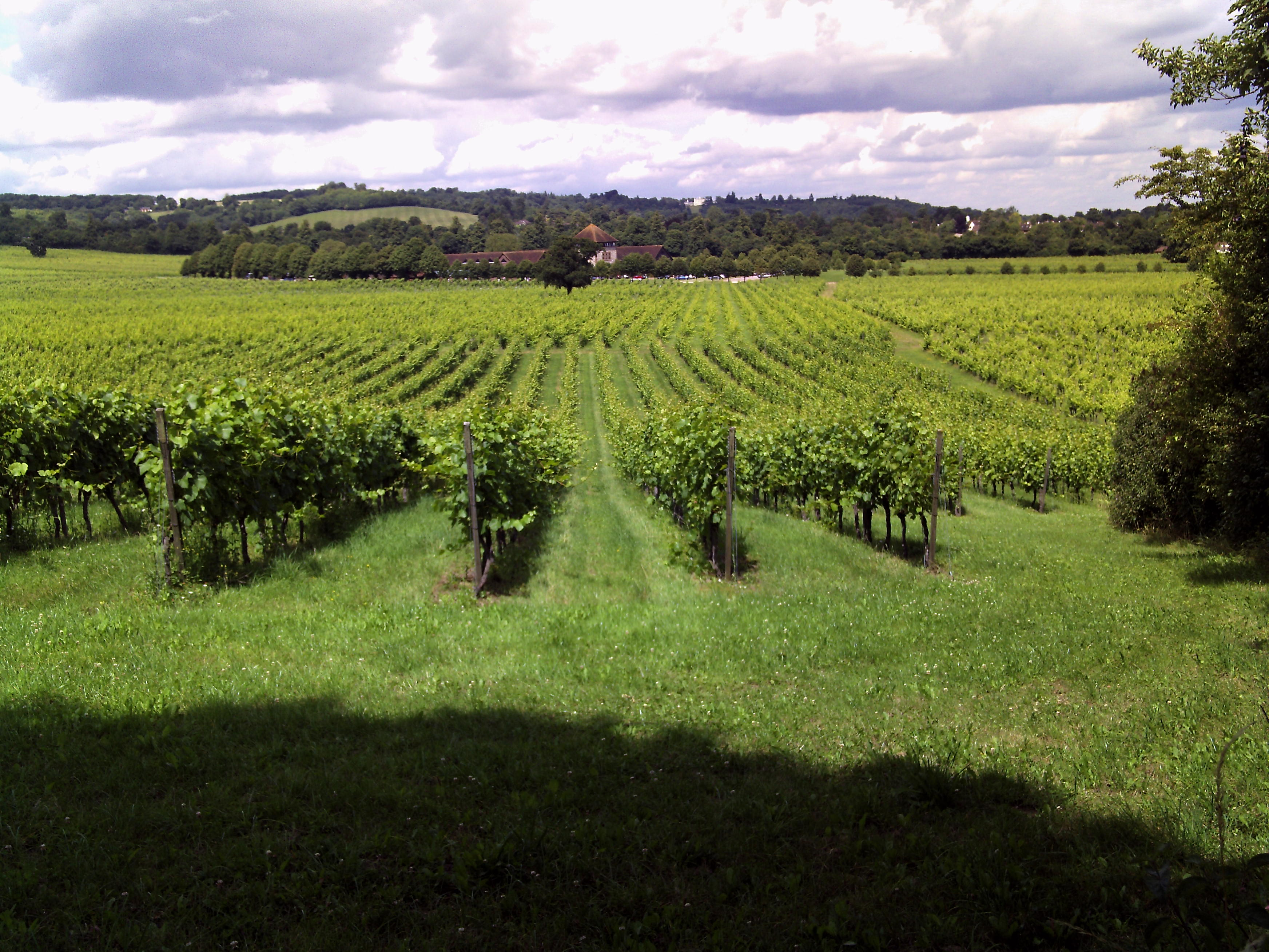 A view of part of Denbies Wine Estate, near Dorking, in Surrey.